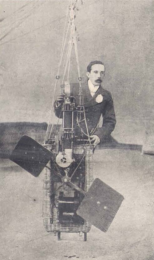 Dummont barca